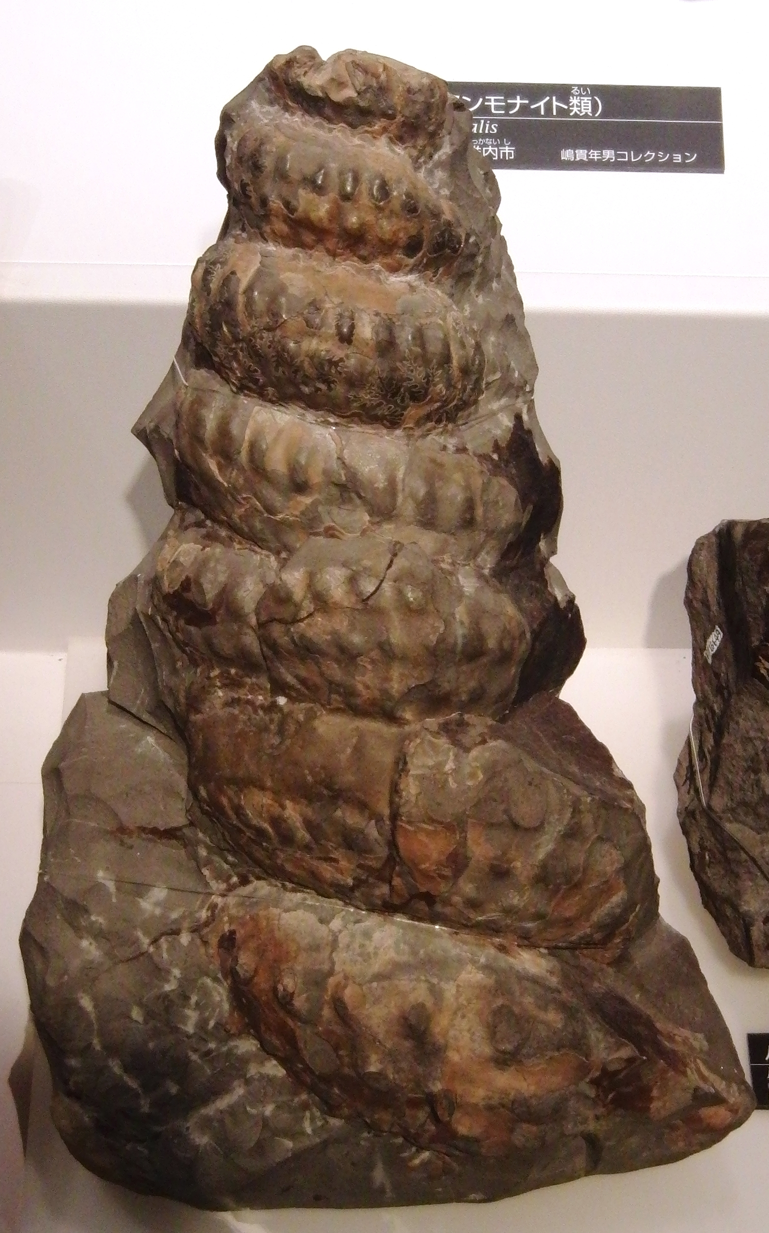 Fossil of Mariella lewesiensis from Mukawa, Hokkaido, Japan. Late Cretaceous. Exhibit in the National Museum of Nature and Science, Tokyo, Japan.